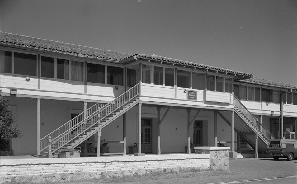 Stillwell Hall, 1992 view